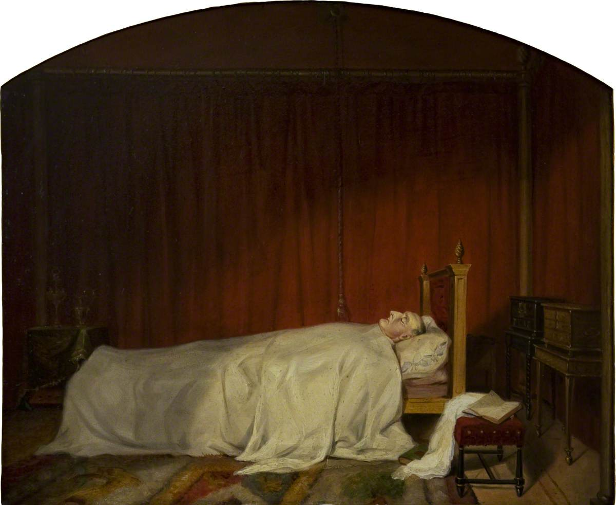 Painting of William Beckford on his death bed painted by Willes Maddox. Oil on panel. The painting depicts Beckford draped in a white sheet and surrounded by his favourite pieces from his collection, including three cabinets and a ewer. The painting is signed and dated on the reverse. In an unglazed, gilt and ebonised wood frame with an arched aperture and decorated with a band of stylised feathers. 'WILLIAM BECKFORD' and 'DIED 1844' is hand painted in black on the frame.